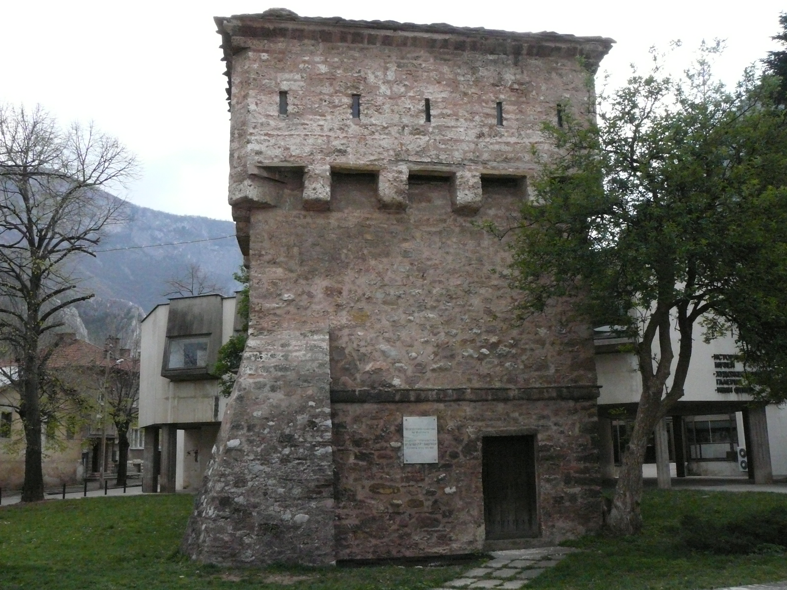 Kurtpashova Tower in Vratsa, Bulgaria